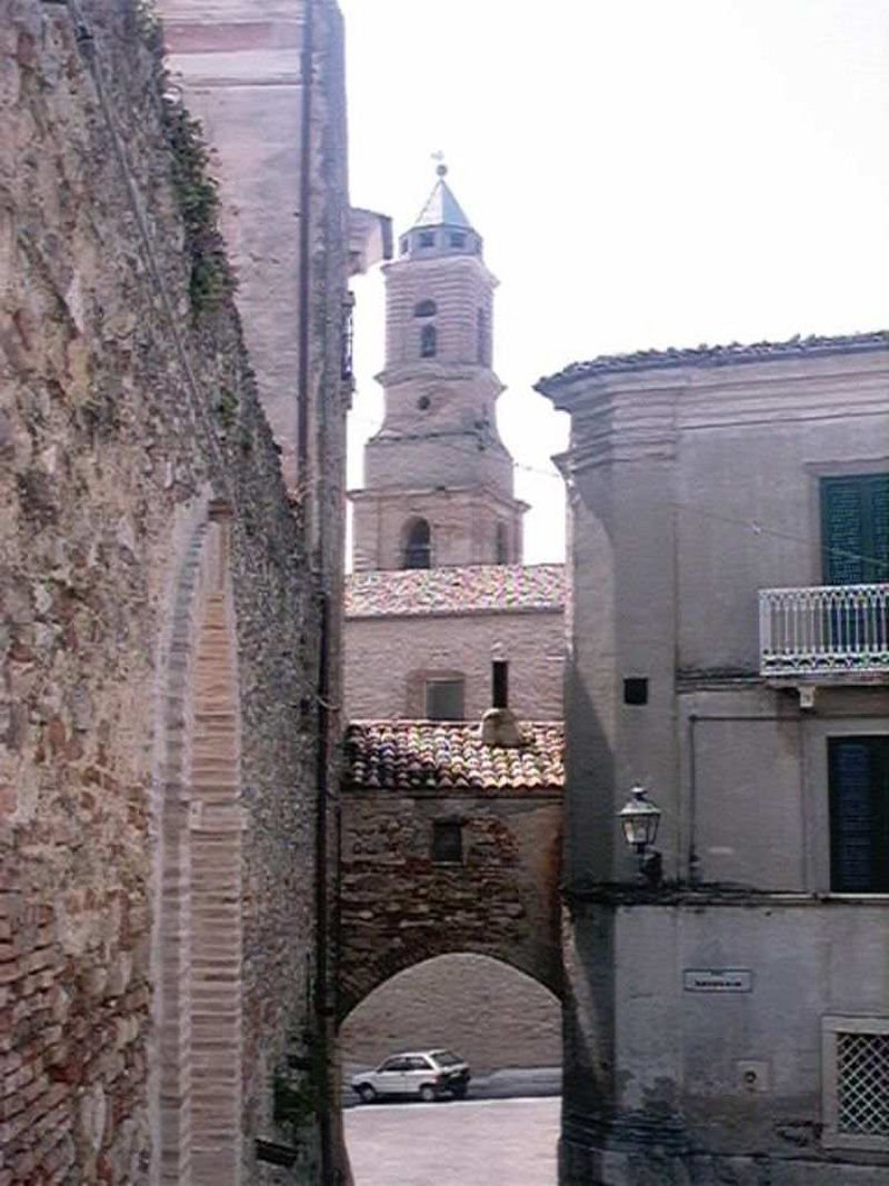 Baronial Palace - it is well-know as The Castel or The Count Palace